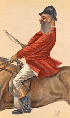 Tom Nickalls by someone whose nickname was PAT. I assume that it was not Jean de Paleologue because this one's nickname was PAL.